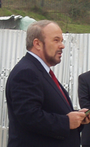 Fatos Nano, then primeminister of Albania, Tirana, December 2004, photo: Bjørn Andersen